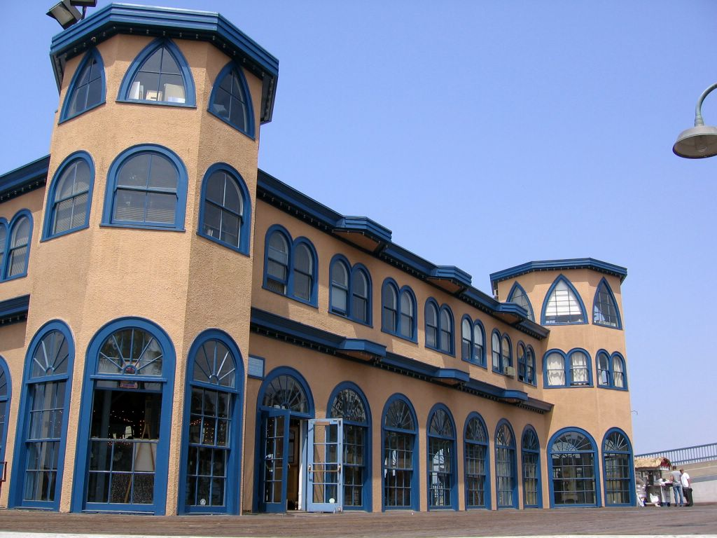 The Santa Monica Looff Hippodrome - the historic Victorian era main building - with a carousel inside - on the Santa Monica Pier.